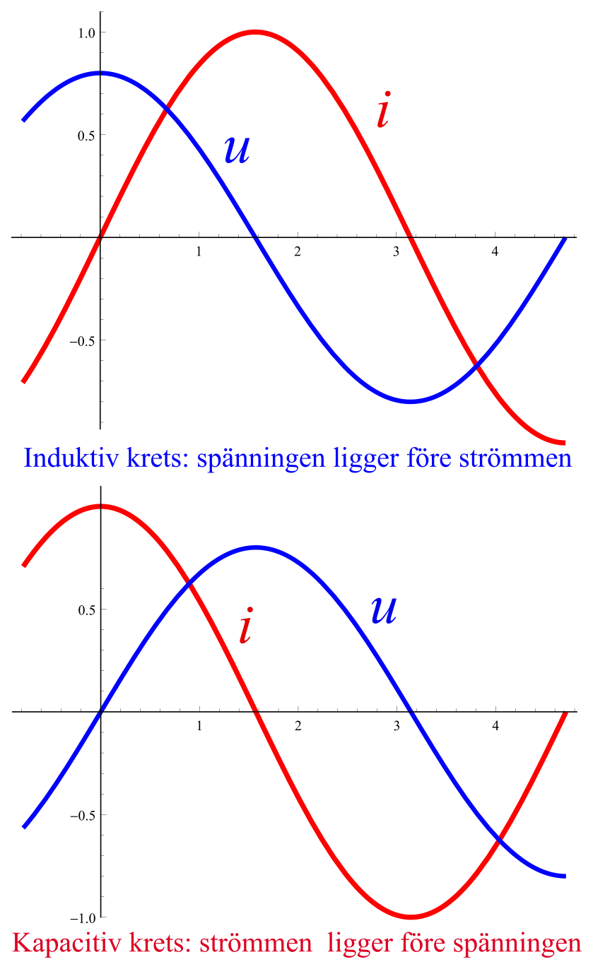 u and i phase difference when the difference is "small"